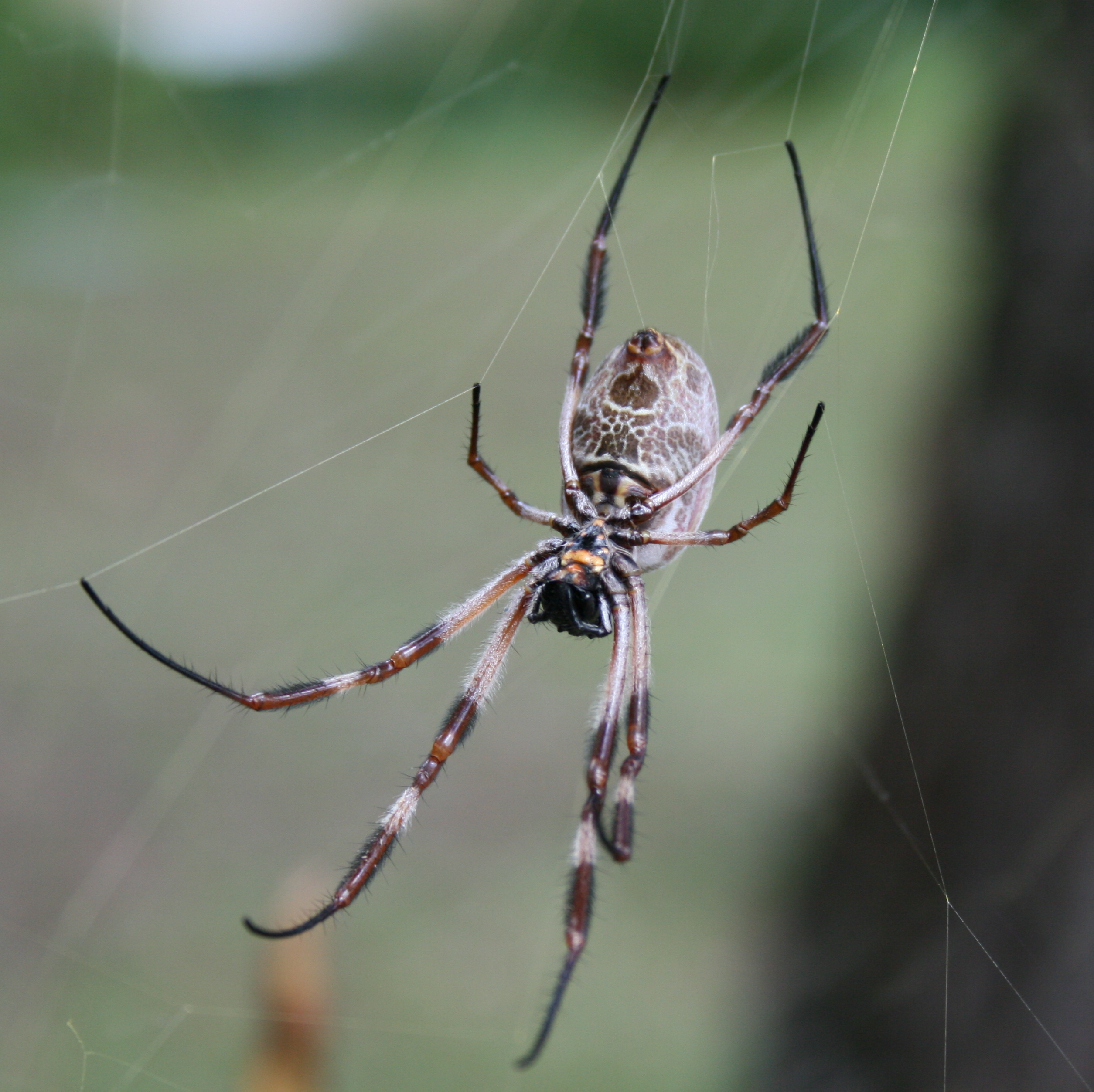 Golden orb spider (Nephila edulis) in a Sydney garden.